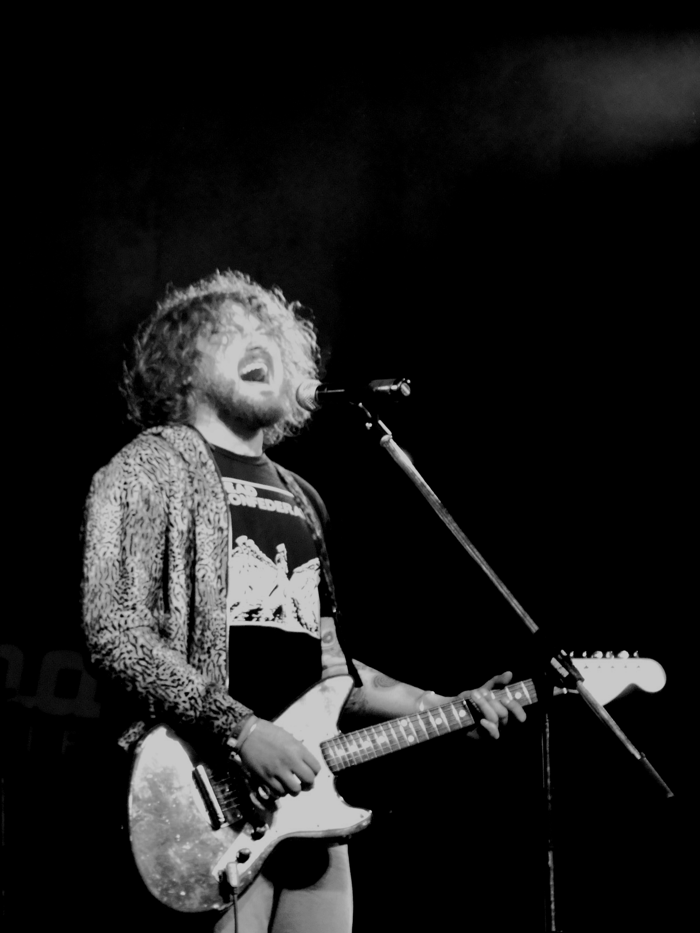 Sashko Chemerov of "Dymna Sumish" at Ruynatsiya Festival 2012 in Lviv.